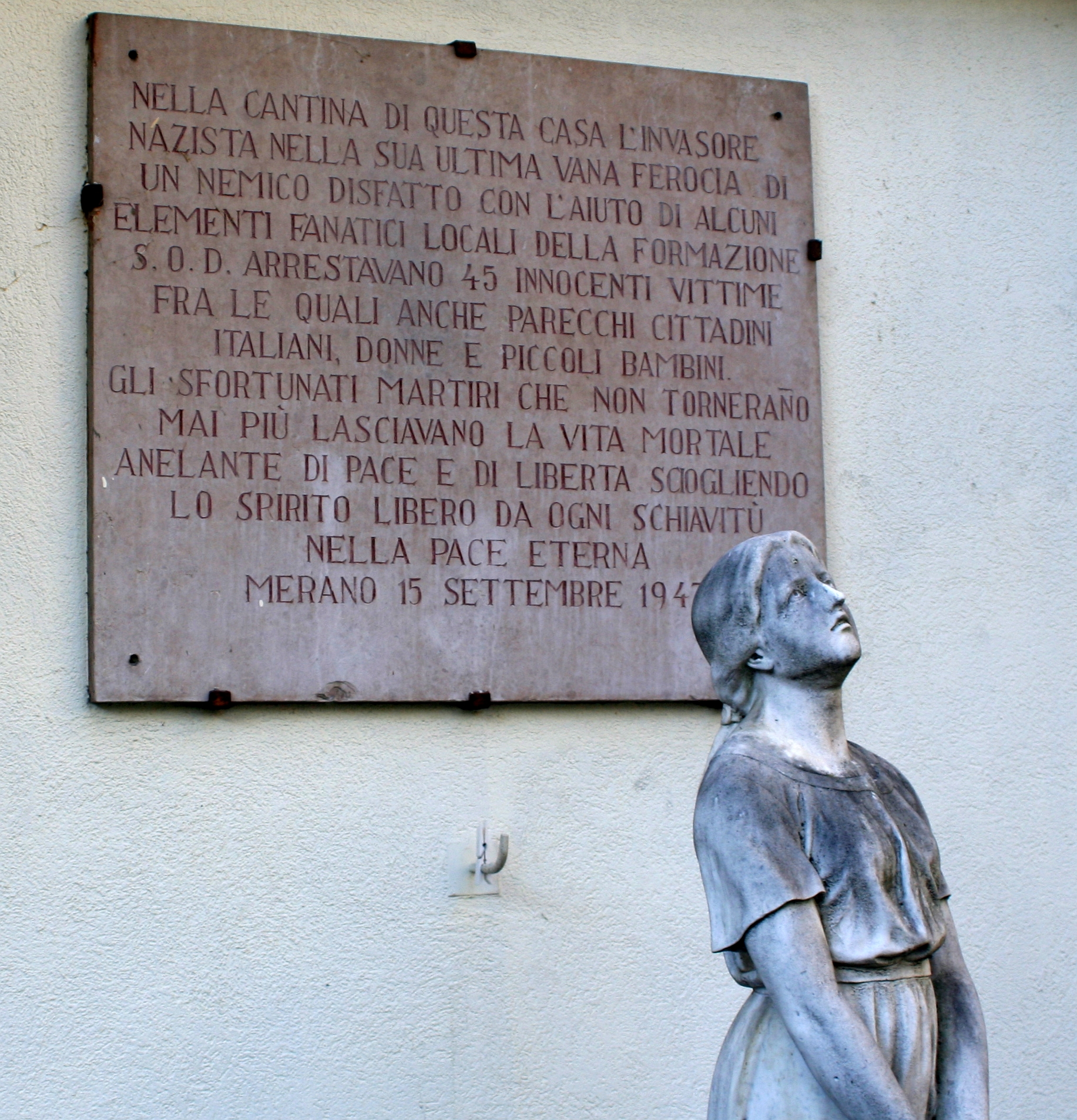 Memorial for the jews of Meran, who have been arrested in 1943, three days after the german invasion in the house of Balilla, now Otto-Huber-Strasse 36, Meran. The day after they were deported to Germany, only one of them survived the Holocaust.